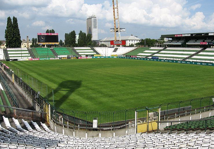 FTC Budapest